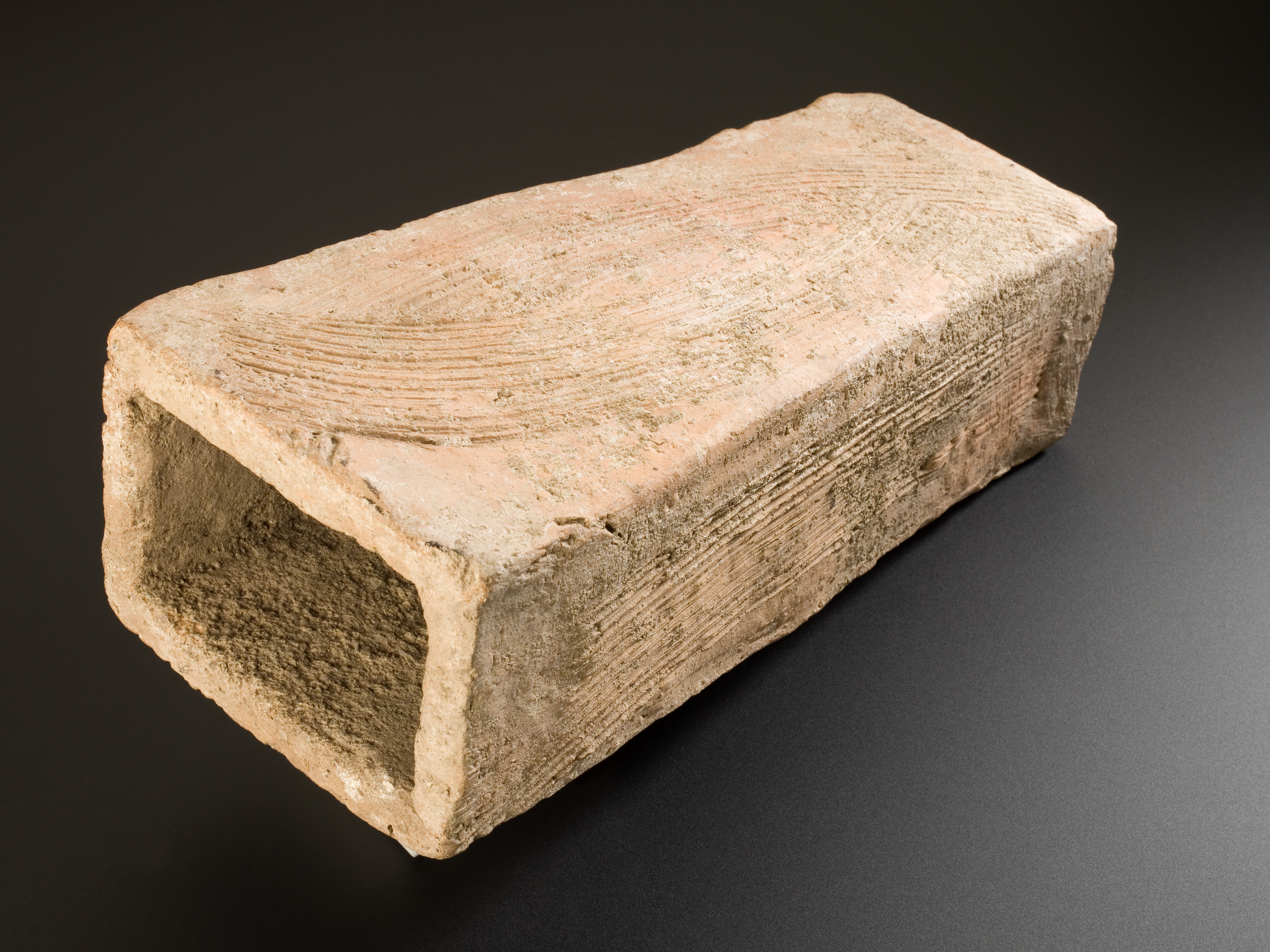 Terracotta water pipe, Roman, 200 BCE-200 CE Terracotta water pipes were used quite widely in towns and cities throughout the Roman Empire. This rectangular pipe is slightly tapered at one end to allow it to be slotted into other pipes. Unlike their lead counterparts, terracotta pipes could be repaired quite easily and were also cheaper to produce. Medical Photographic Library